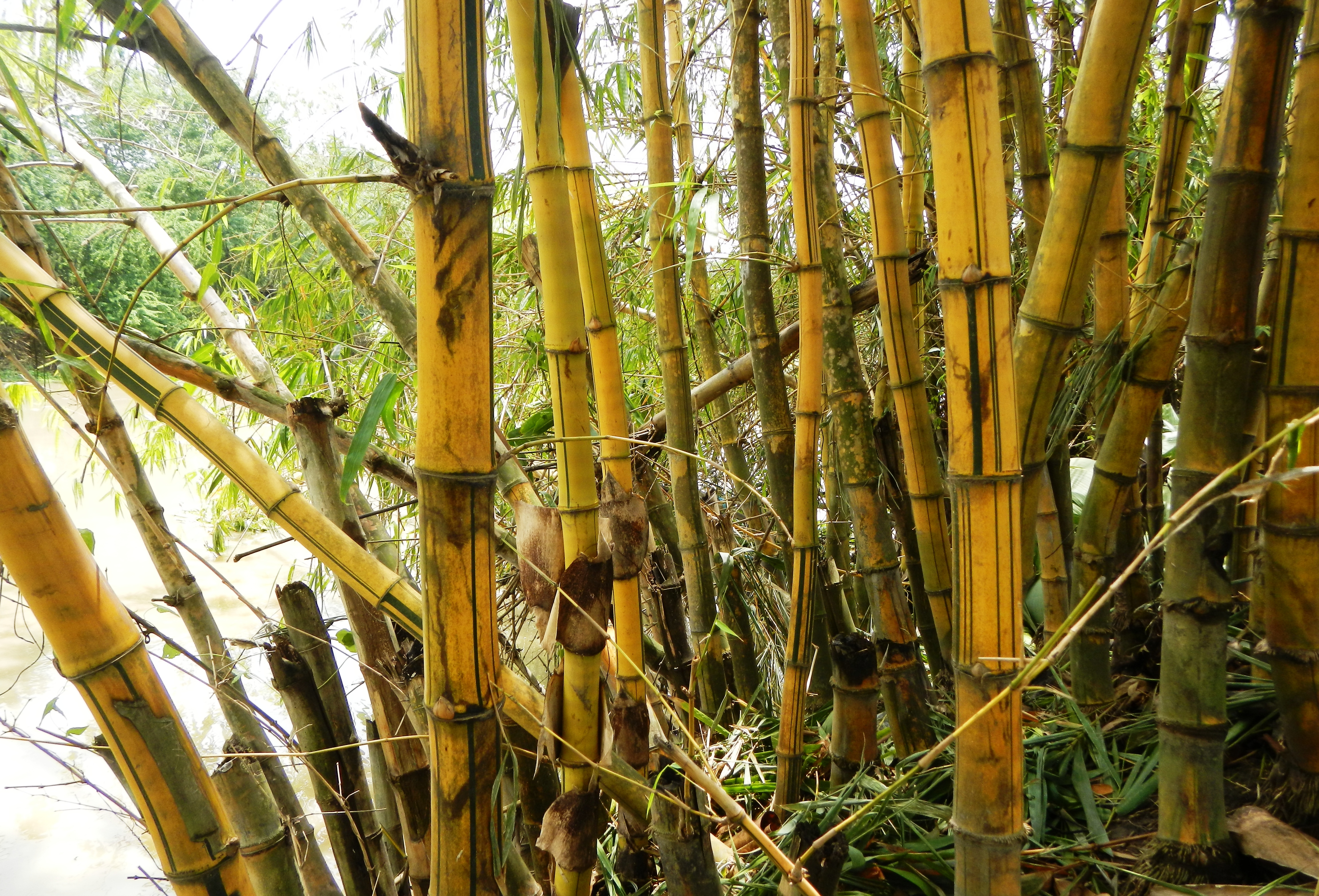 Barangay Bulusan, Calumpit, Bulacan - (landscape, scenery, Bambusa vulgaris, or Golden Bamboo, or Buddha's Belly Bamboo beside an ageless Tamarind (Tamarindus indica) - landmarks are the Barangay Hall and Santa Cruz Chapel along the interior Calumpit-Hagonoy-Malolos, Bulacan Provincial Road, surrounded by the Pampanga River from Calumpit River and Hagonoy River).